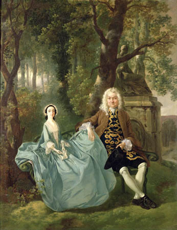 Portrait of Mr and Mrs Carter of Bullingdon House [or Ballington Hall per the National Gallery], Bulmer, Essex. These were the parents of Mrs Andrews in Mr and Mrs Andrews in the National Gallery